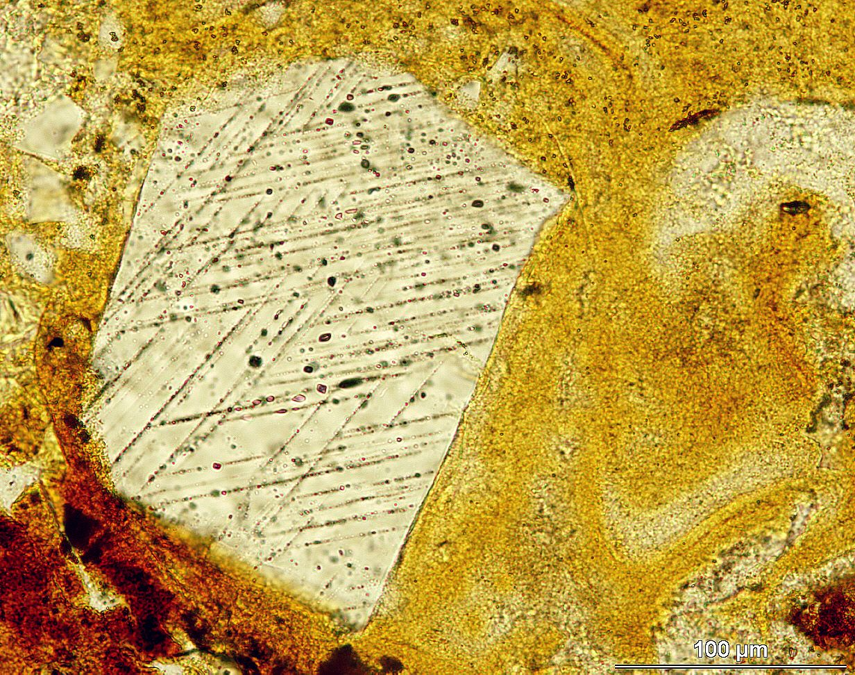 Thin section photomicropgraph of shocked quartz grain with two sets of decorated planar deformation features (PDFs) surrounded by cryptocrystalline melt matrix in impact melt rock from the Suvasvesi South impact structure, Finland (plane polarized light)